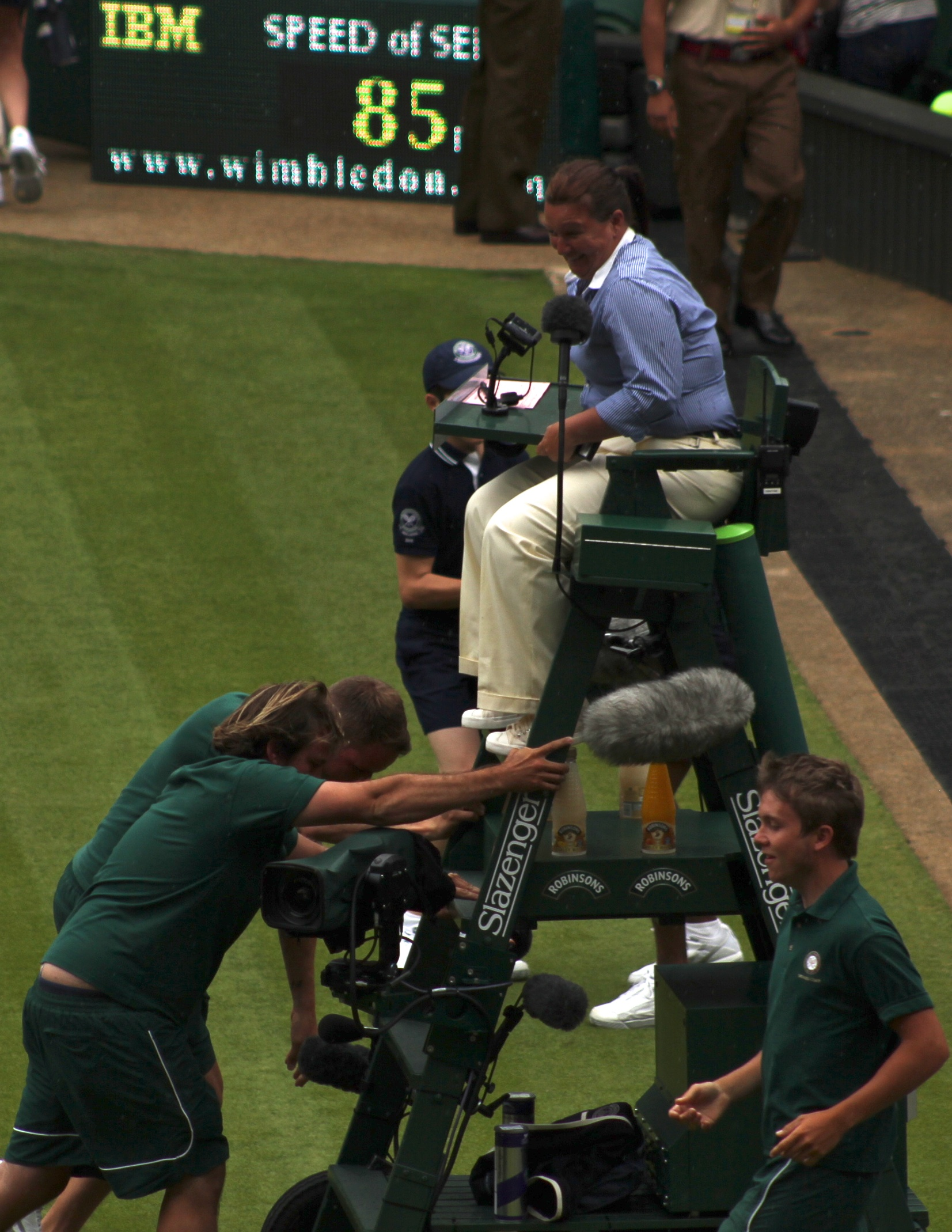 Umpire being wheeled back as the covers come on centre court.